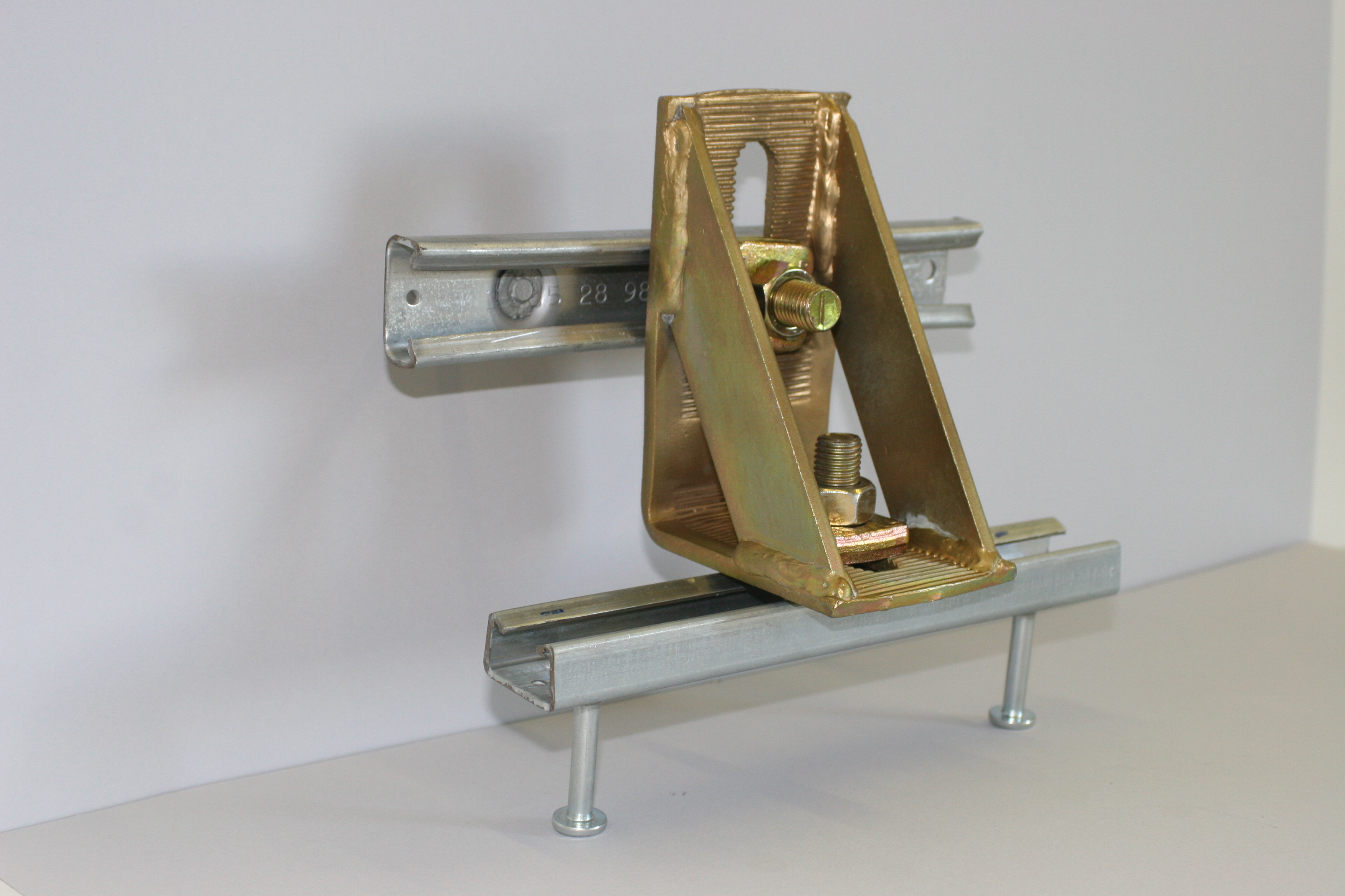 Cast-in channel